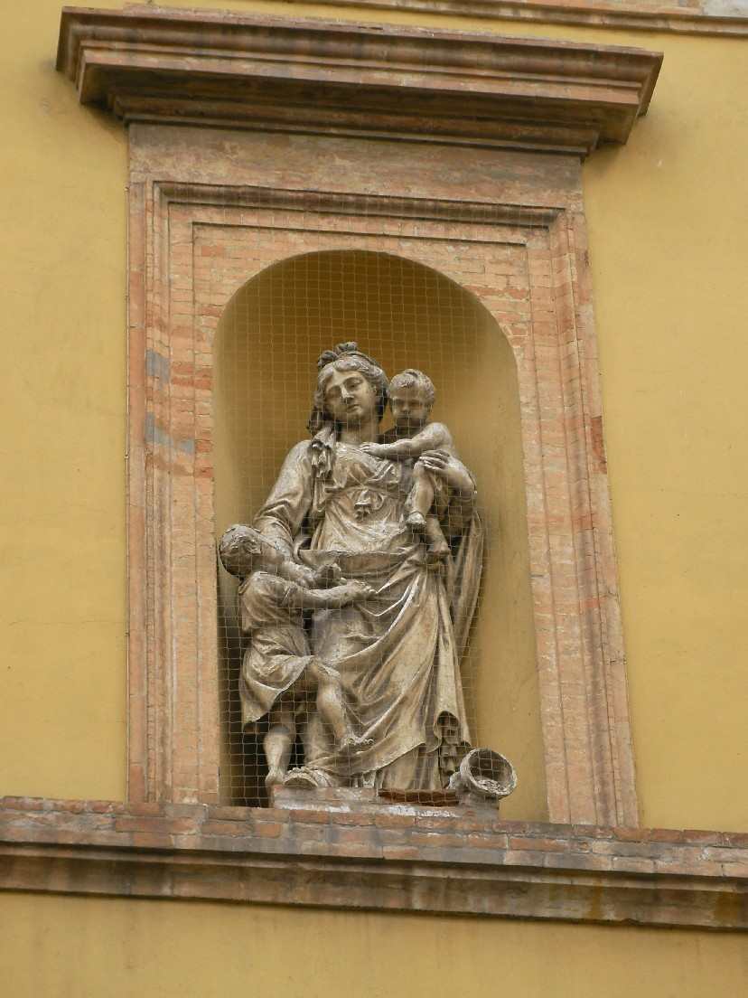 The Charity of the brothers Ballanti Graziani, to the corner of Palace of Merenda to Forlì